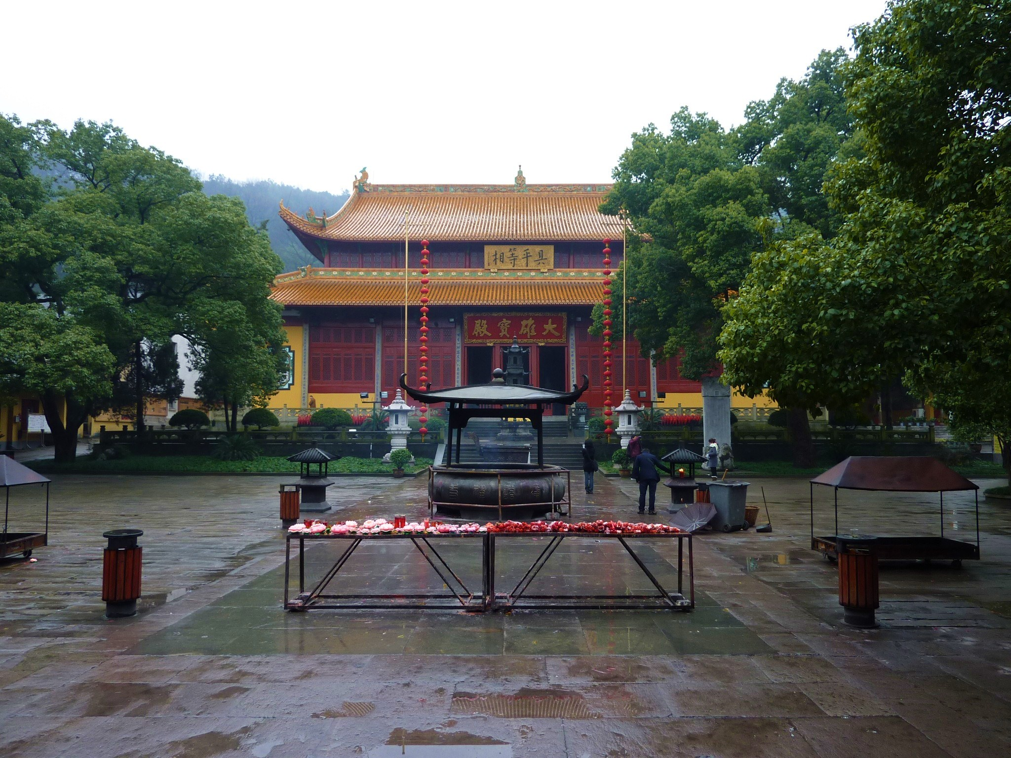 ·˙·ChinaUli2010·.· Hangzhou - Jingci Temple